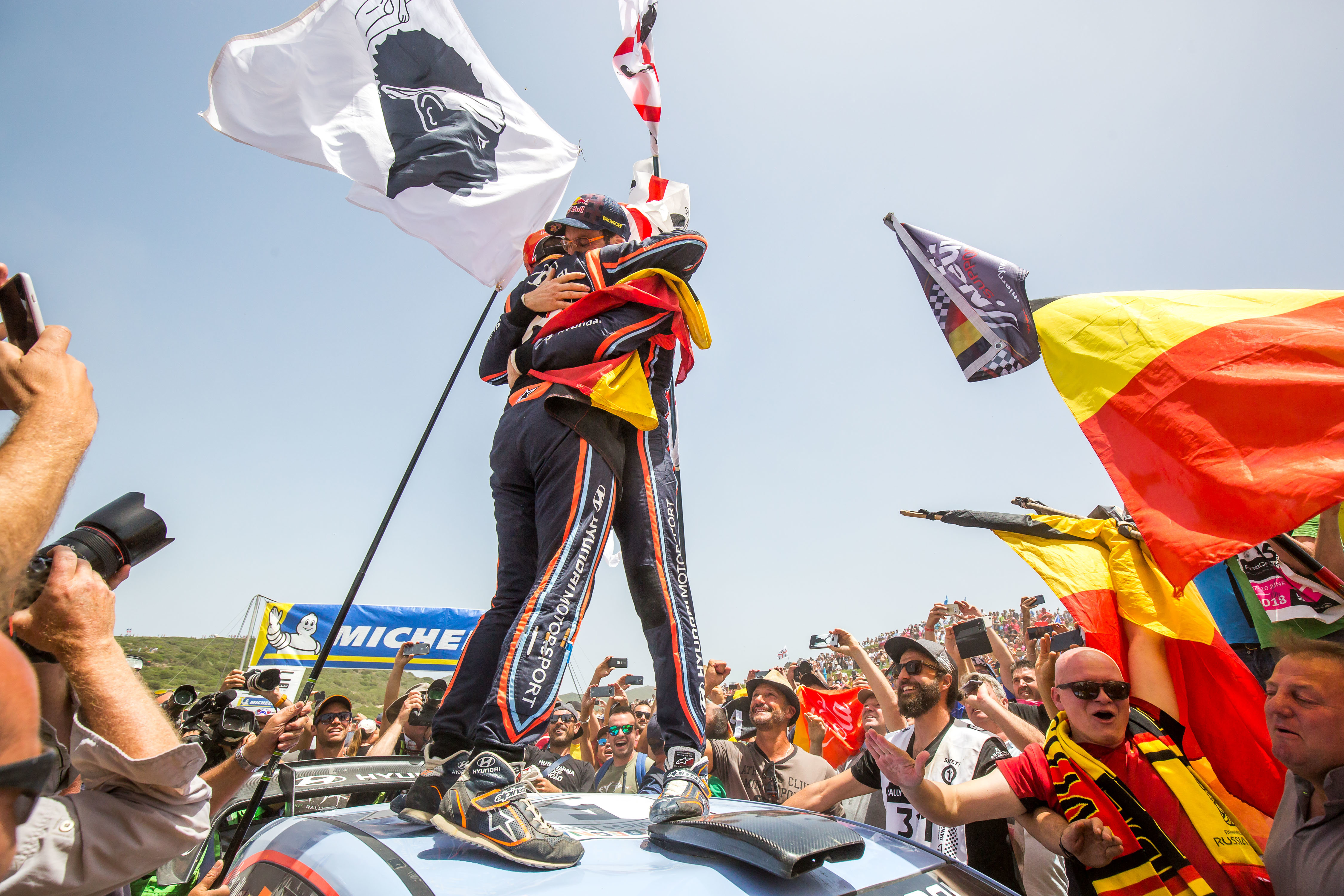 2018 FIA World Rally Championship Round 07 Rally Italia Sardegna 07-10 June 2018 Photographer: Fabien Dufour Worldwide copyright: Hyundai Motorsport GmbH